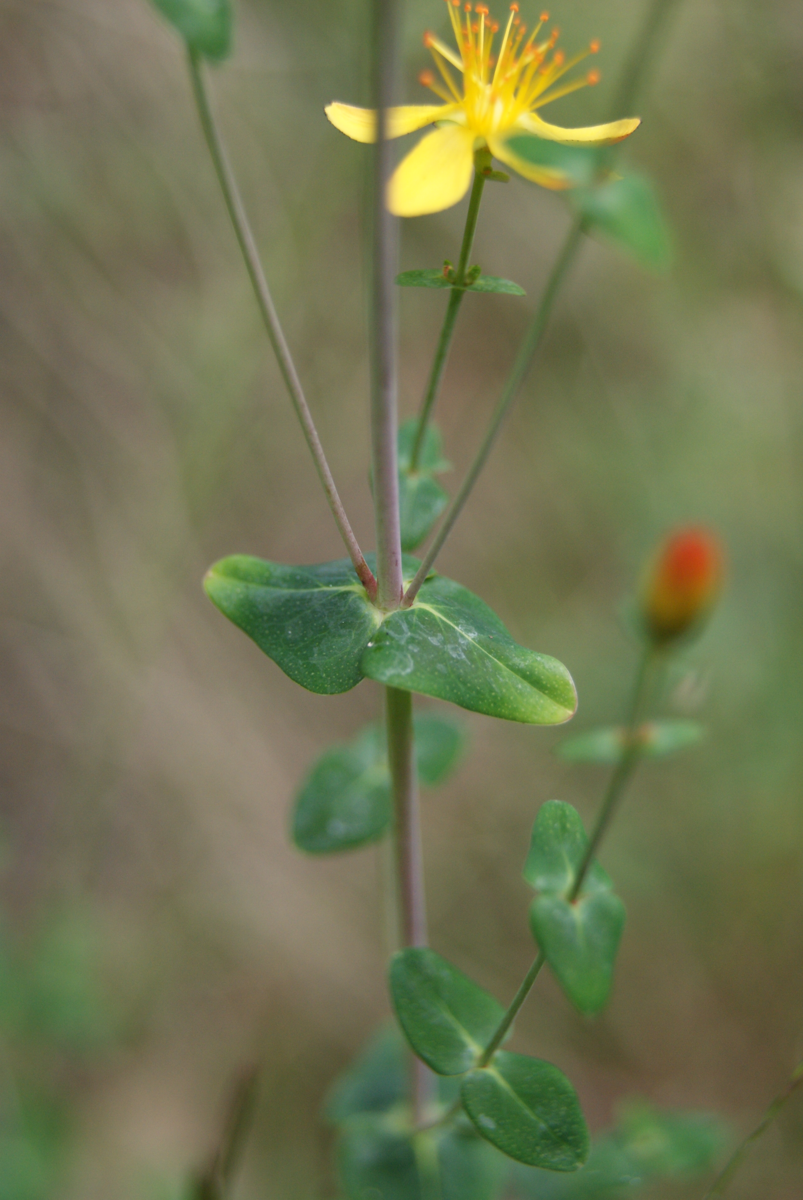 Hypericum pulchrum